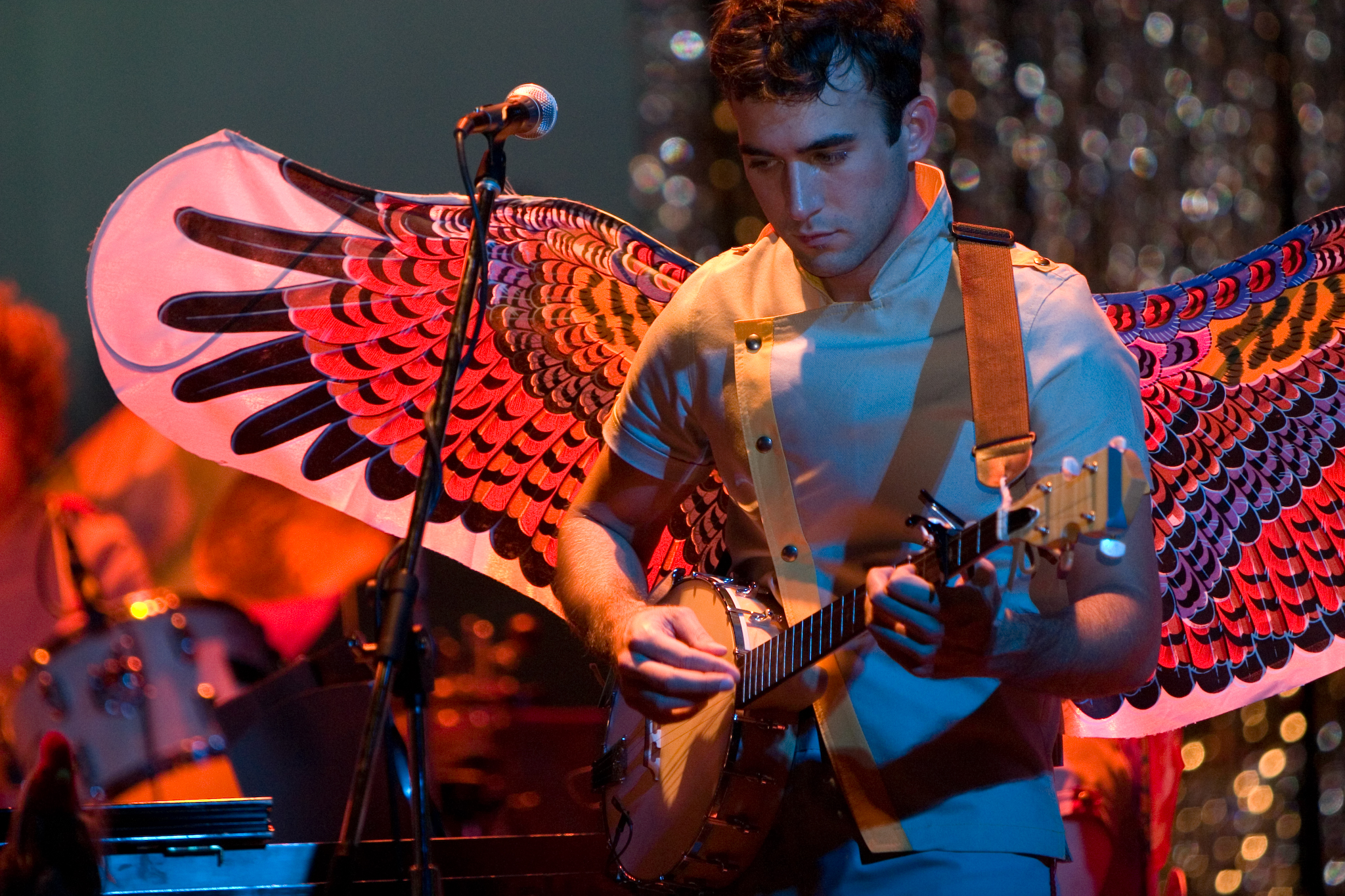 Sufjan Stevens performing at the Pabst Theater in Milwaukee. Photo taken from shifting pixel, photographer: Joe Lencioni.